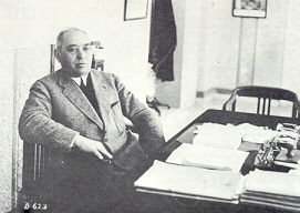 Meir Dizengoff, founder and the first Mayor of Tel Aviv.